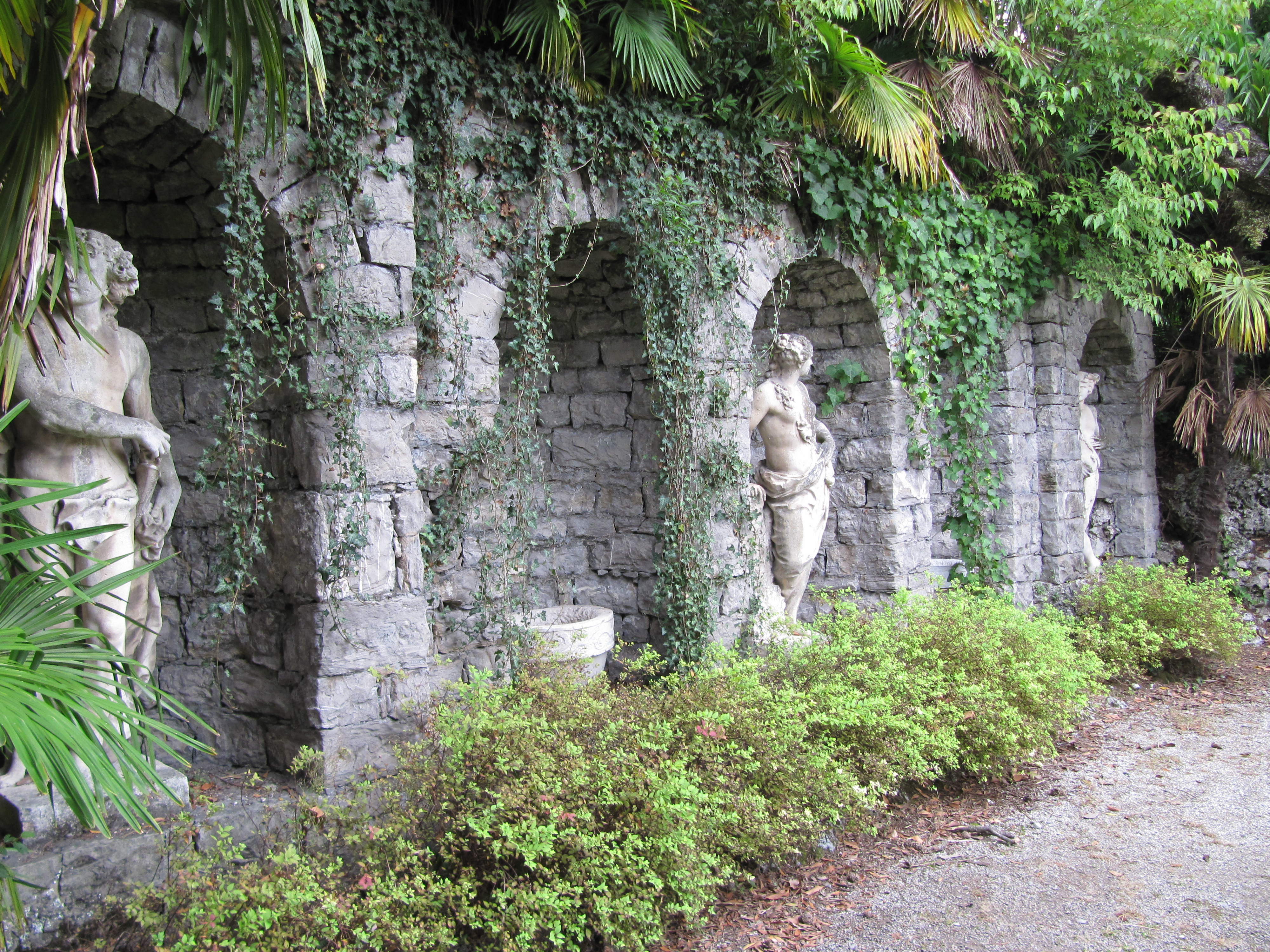 statues of Orazio Marinali in Parco Coronini